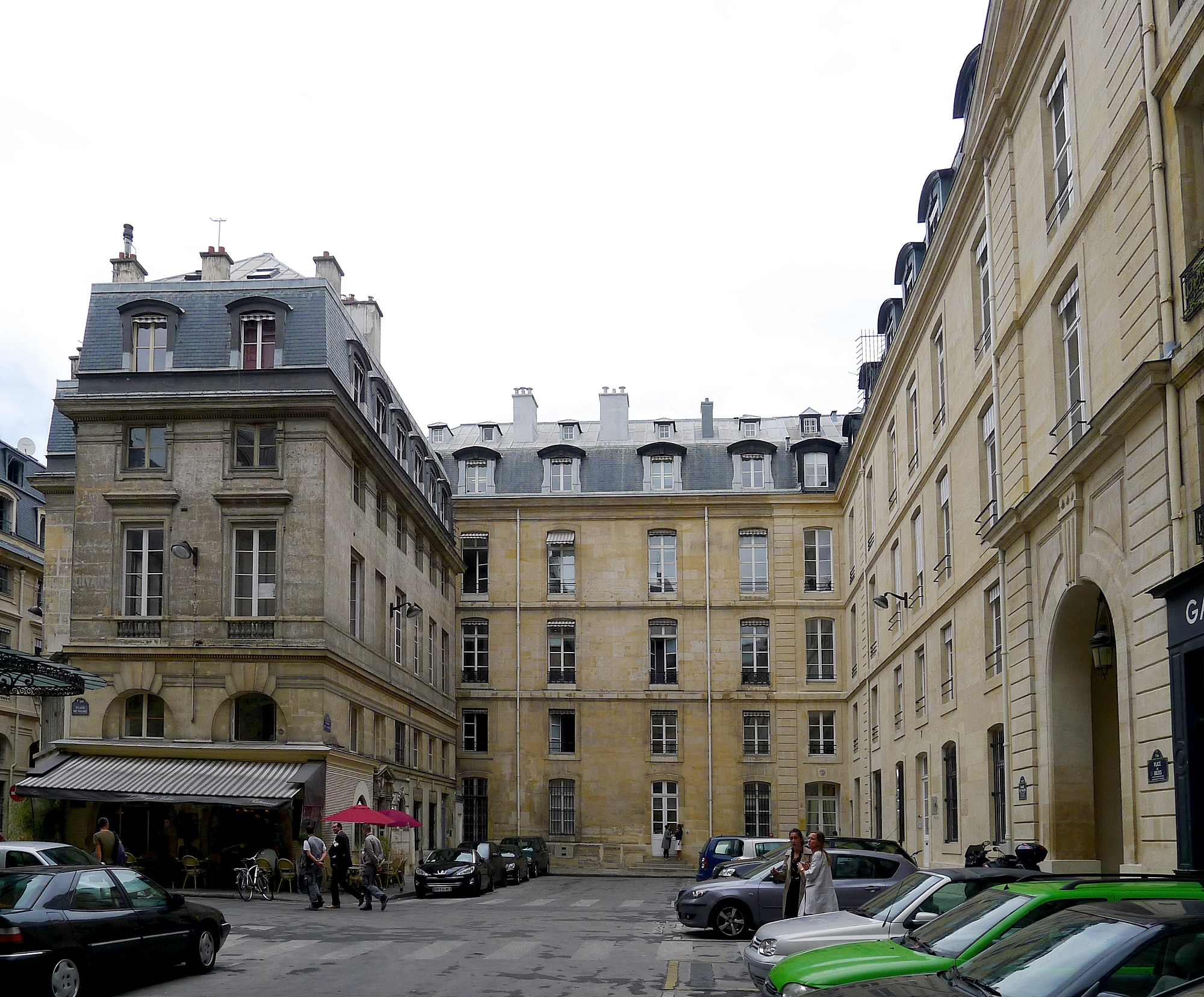 Valois place - Paris